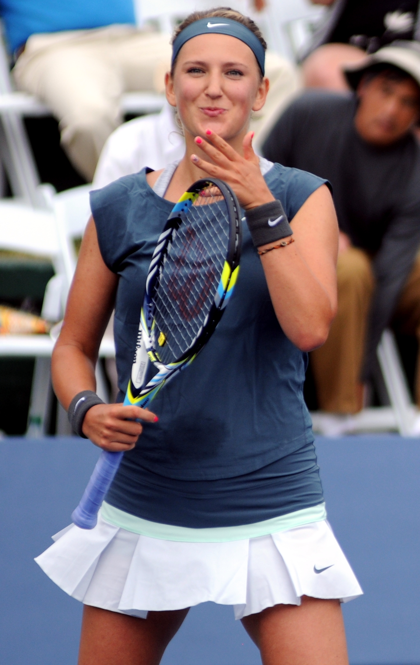 Victoria Azarenka - 2nd Round 2013 Southern California Open